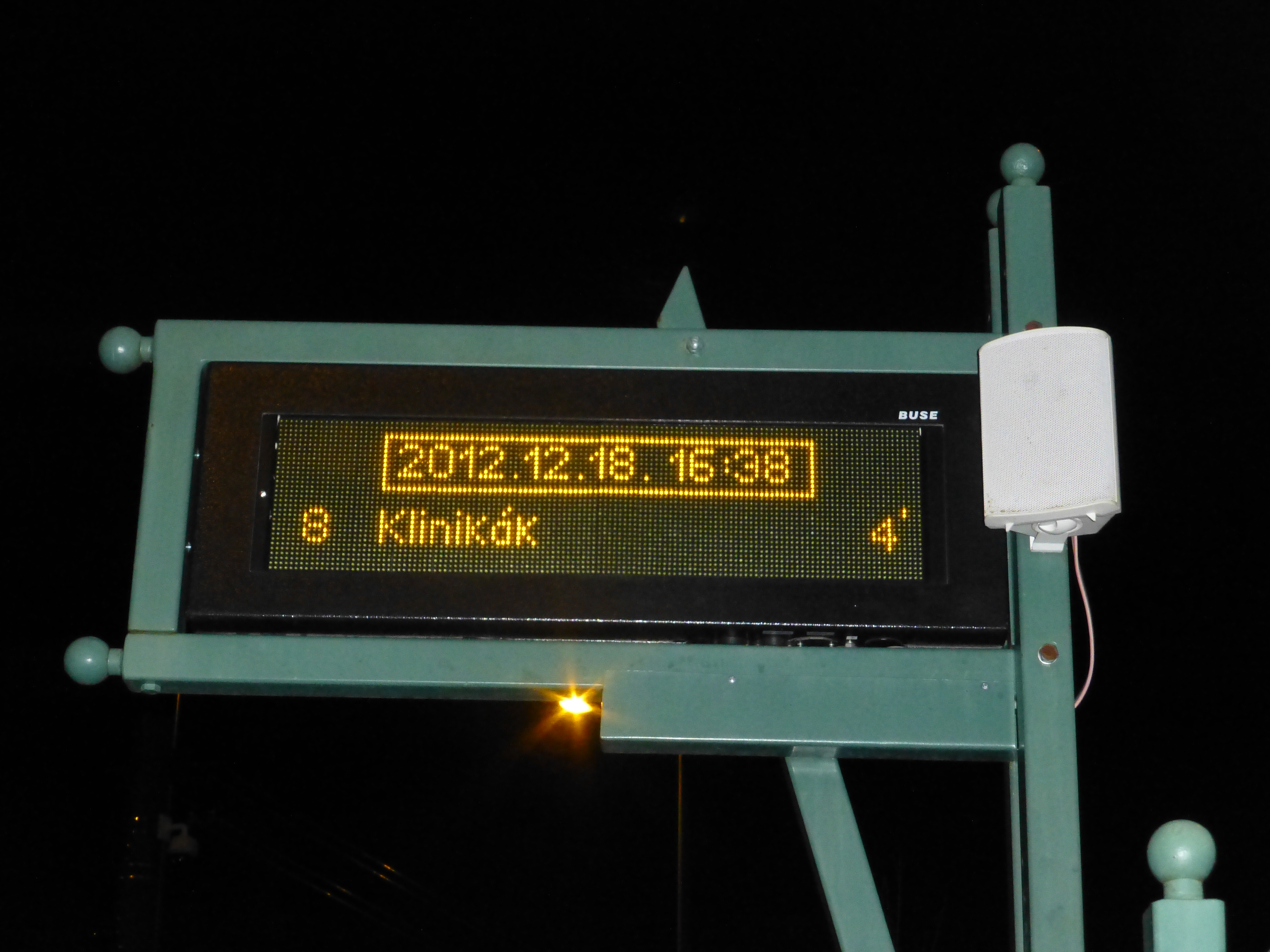 Electronic information board of the public transport, Szeged